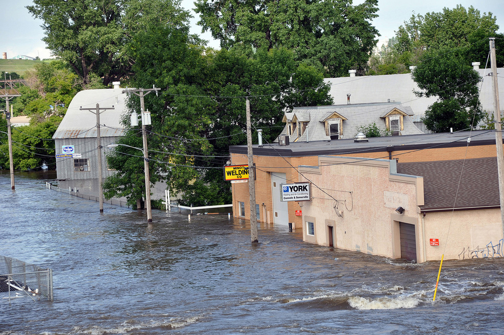 MINOT, North Dakota — High water as in Minot, N.D., as seen from the 3rd Street bridge, June 24, 2011. The U.S. Army Corps of Engineers St. Paul District is assisting the North Dakota communities in the Souris River basin fighting record flooding. (U.S. Army Corps of Engineers photo by Shannon Bauer)